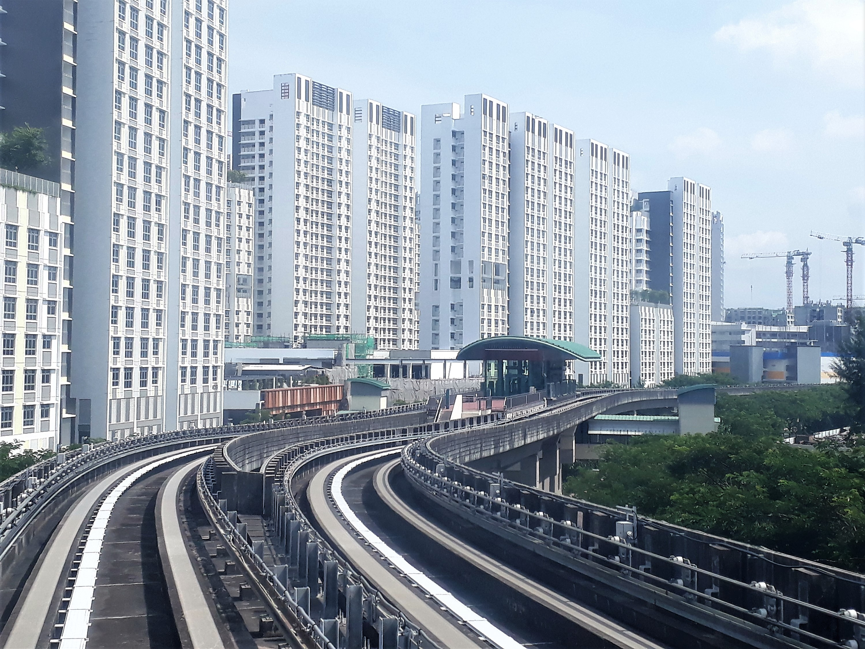 Samudera LRT station